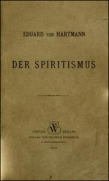 Eduard von Hartmann's book Der Spiritismus. Title page of 1885 edition.